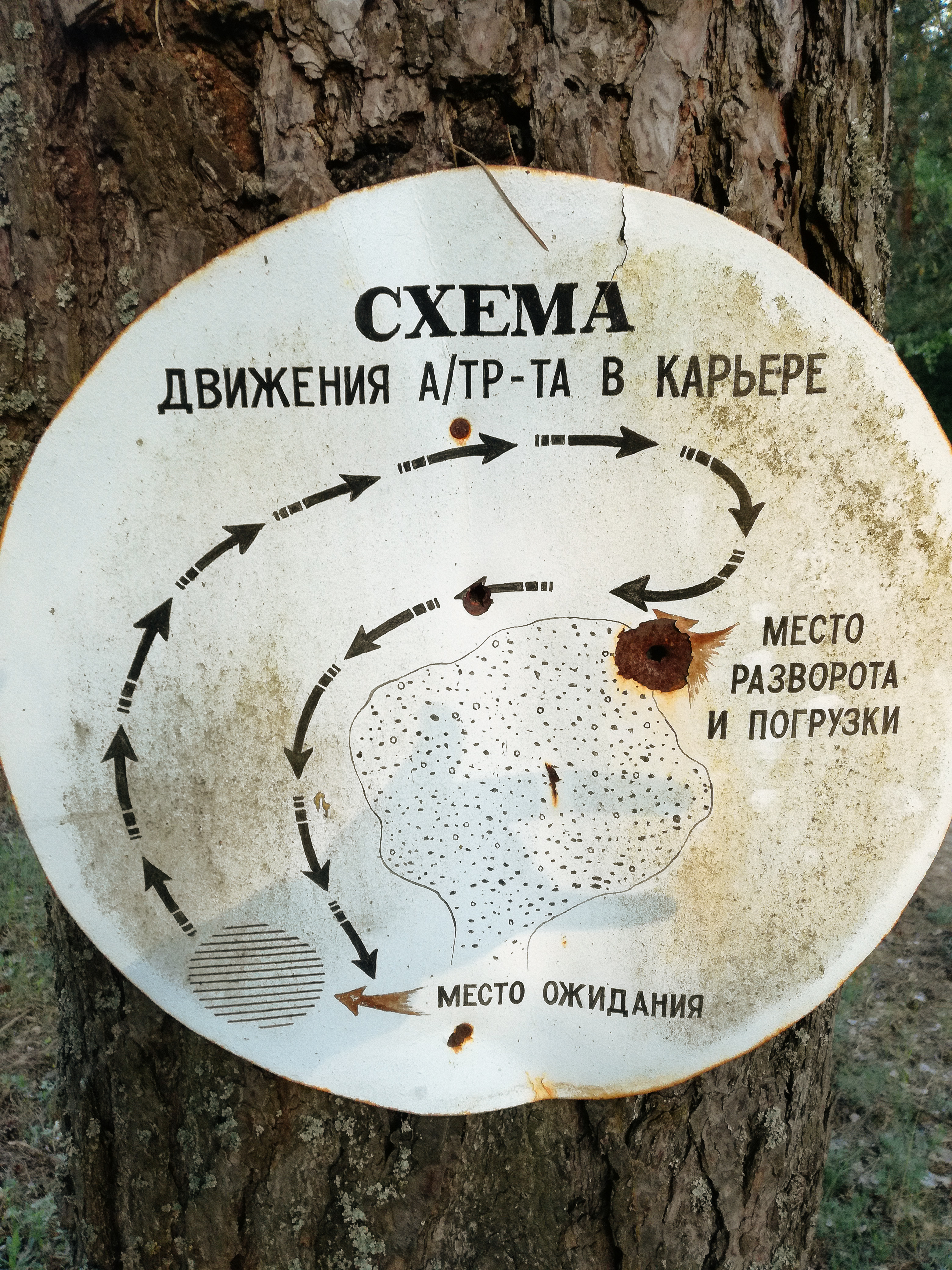 Norica karier